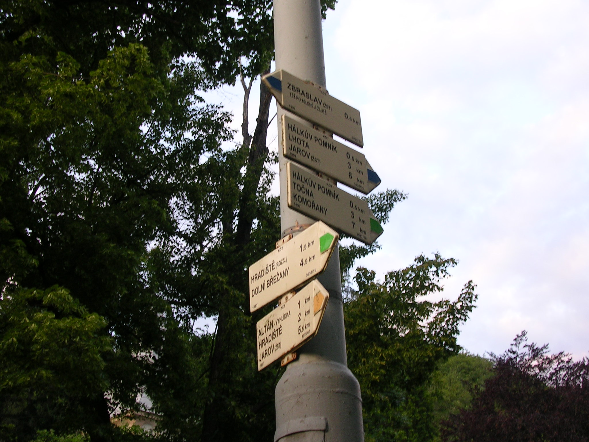 Zbraslav-Závist, Prague, the Czech Republic. Hiking signs.